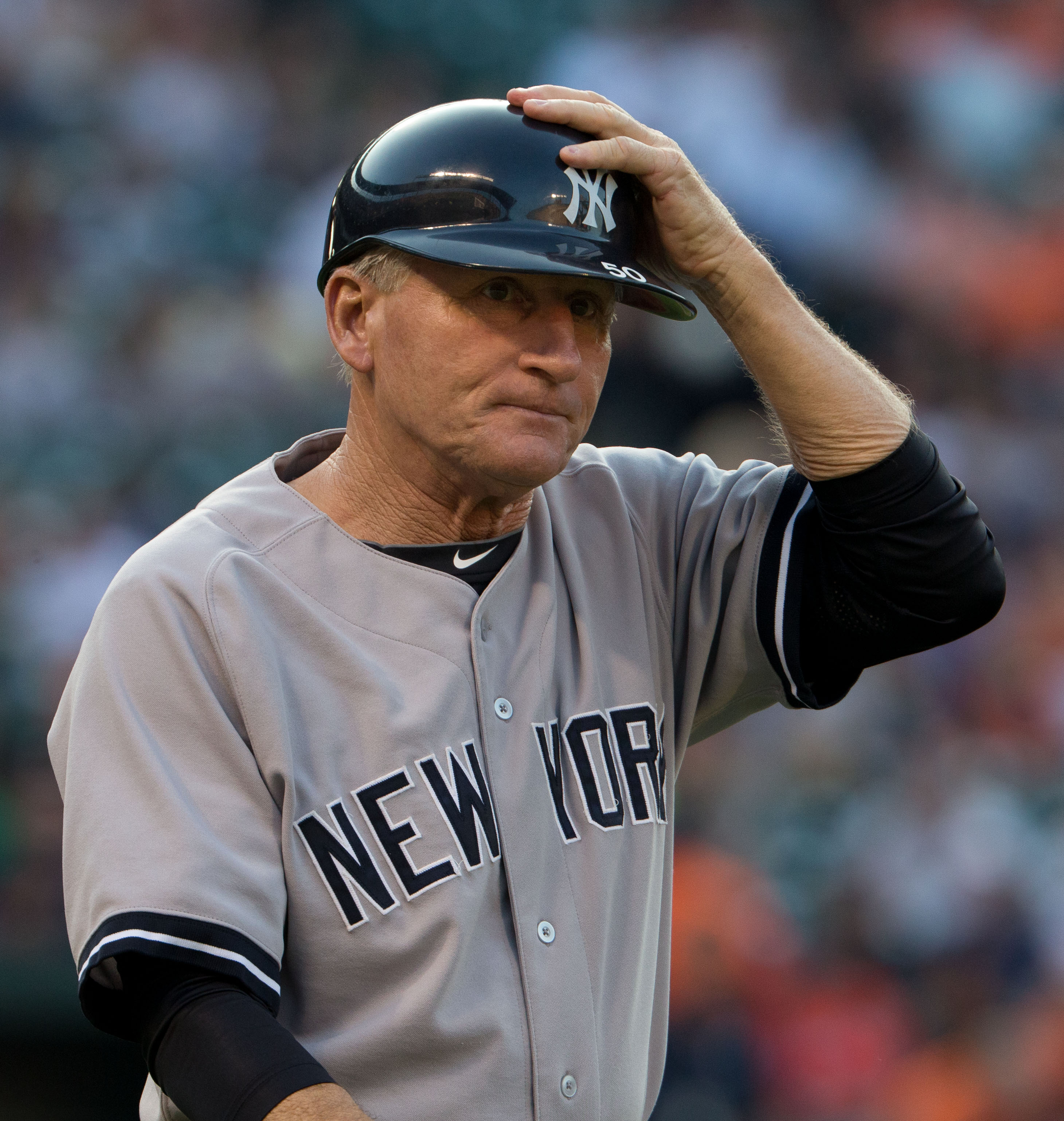 New York Yankees at Baltimore Orioles May 20, 2013